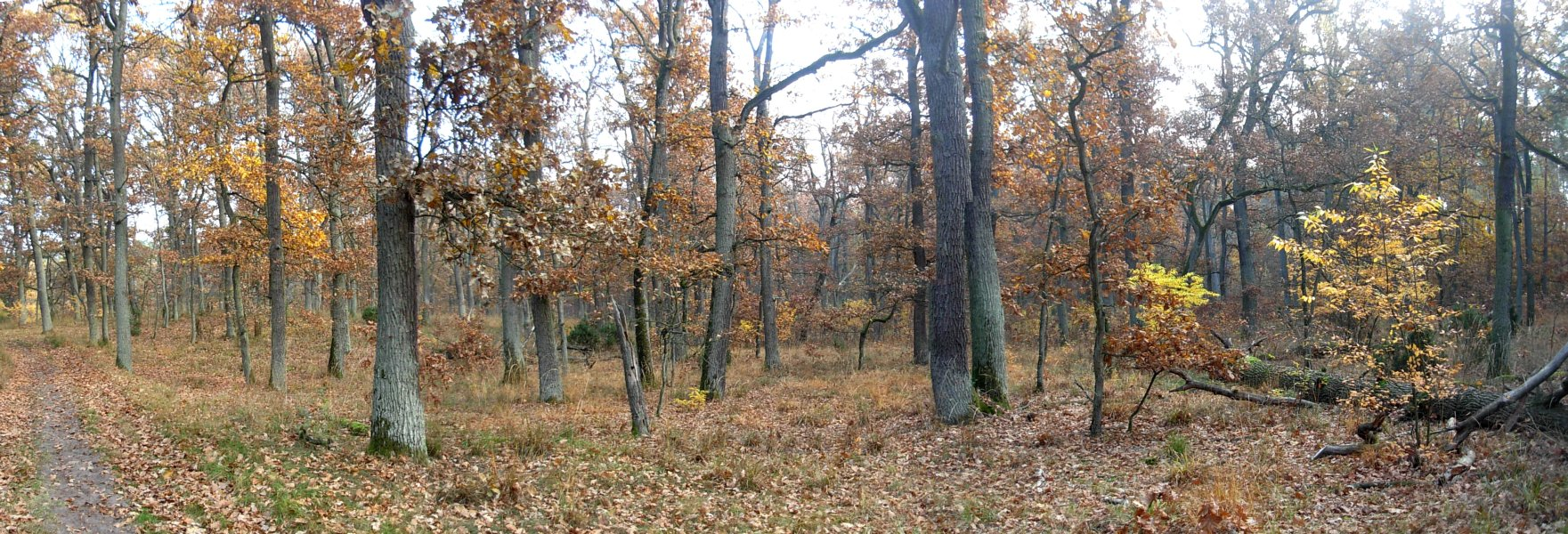 Nature reserve Dziki Ostrów